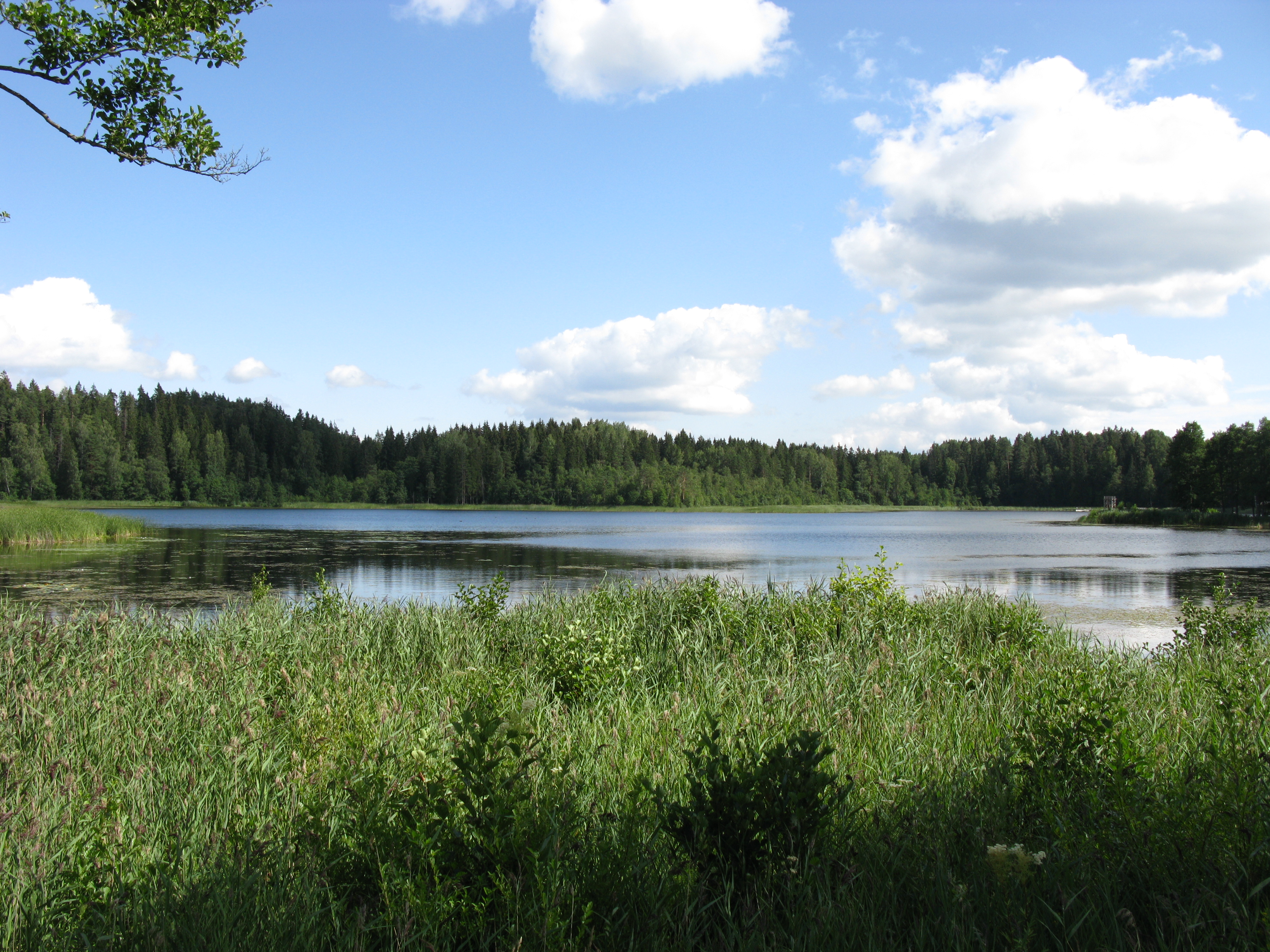 Lake Kääriku is located on Valga District, Estonia.